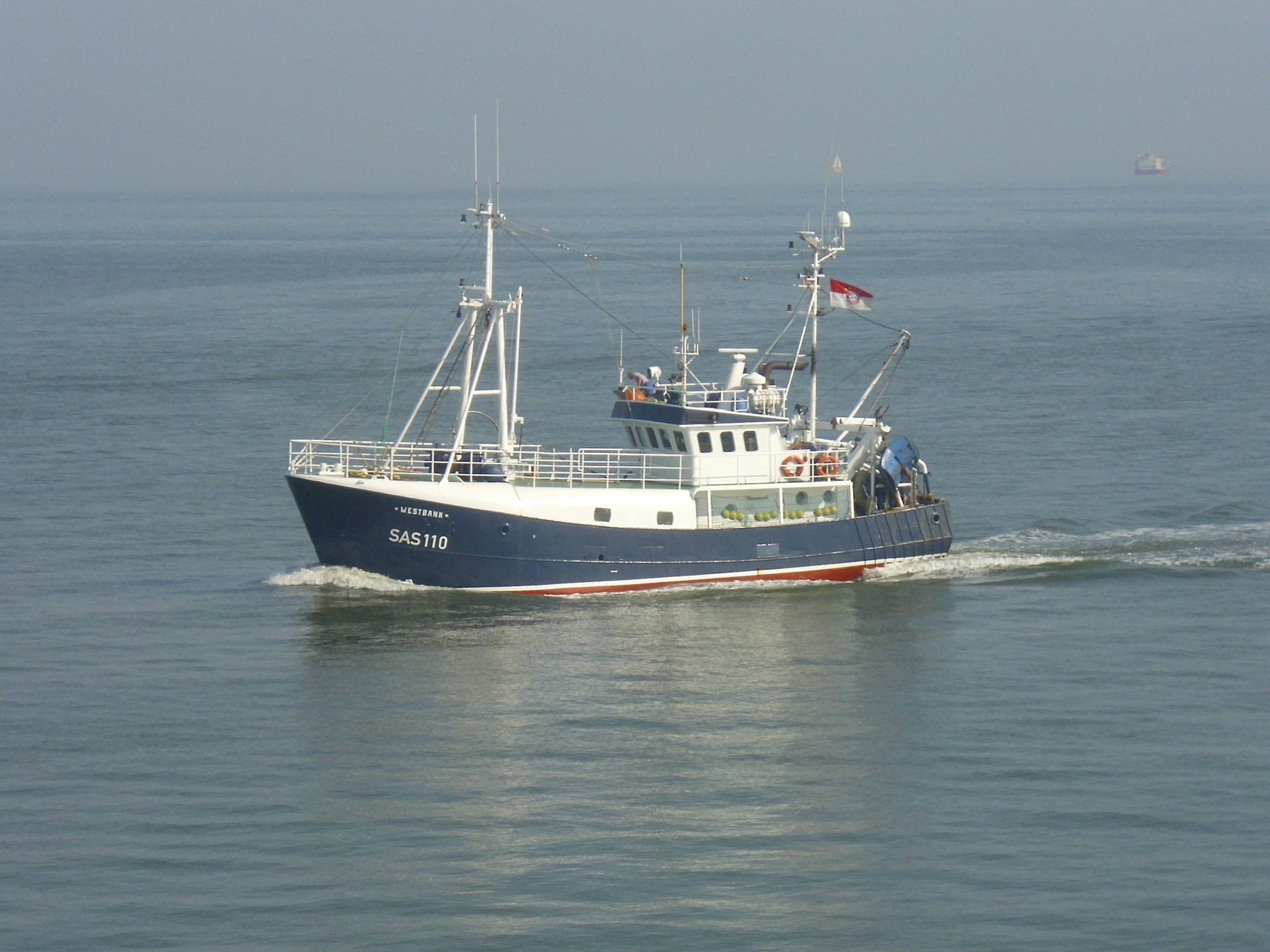 The fishing vessel Westbank (SAS 110) arriving at Cuxhaven, Germany